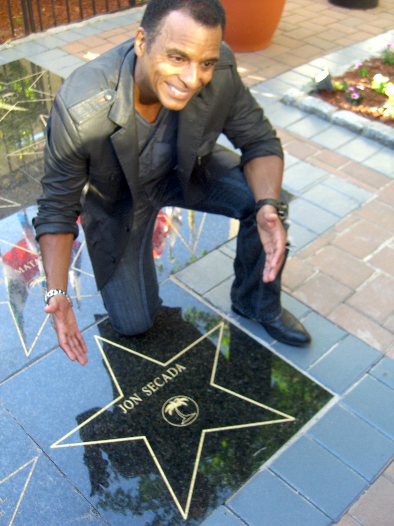 Grammy Award-winning singer Jon Secada (left), at a June 2, 2011 ceremony at Celia Cruz Plaza in Union City, Jersey, where he was honored by the city with a star at the Plaza's Walk of Fame for contributions to the world of Latin entertainment and media. At right is Secada's manager, Dr. Hans Reinisch. Photographed by Luigi Novi. This photo is not in the public domain. It may, however, be used, modified and published for any purpose, free of charge, only if the photographer is properly credited, either by linking the photograph to this page, or with an easily visible credit to the photographer placed near the photo in each instance in which it is used. (See licensing information below.) Publication of this photo without this proper attribution constitutes copyright infringement. If you have any questions, you can contact me on my Wikipedia Talk Page.